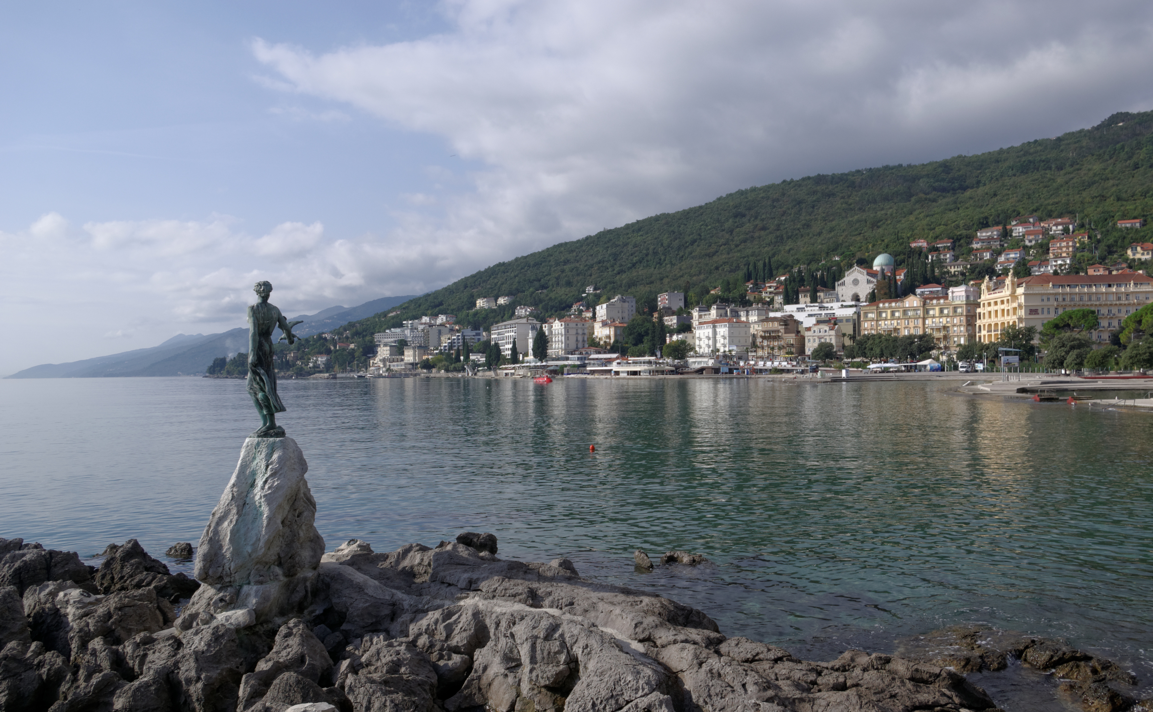 Croatia, Opatija, Women with dove